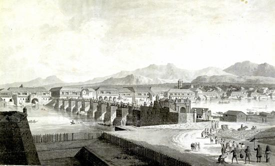 The Puente Grande (Great Bridge) spanning Pasig River in Manila, Philippines. A sketch by Fernando Brambila in 1794 as a member of the Malaspina Expedition.